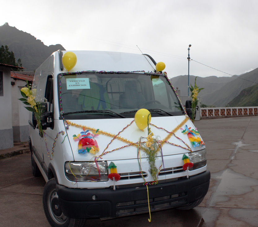 New car adorned to receive a blessing at the place of pilgrimage of the „Señor de Huanca“ in Calca, Peru.